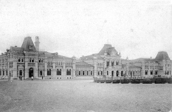 Rizhsky vokzal station. 1901